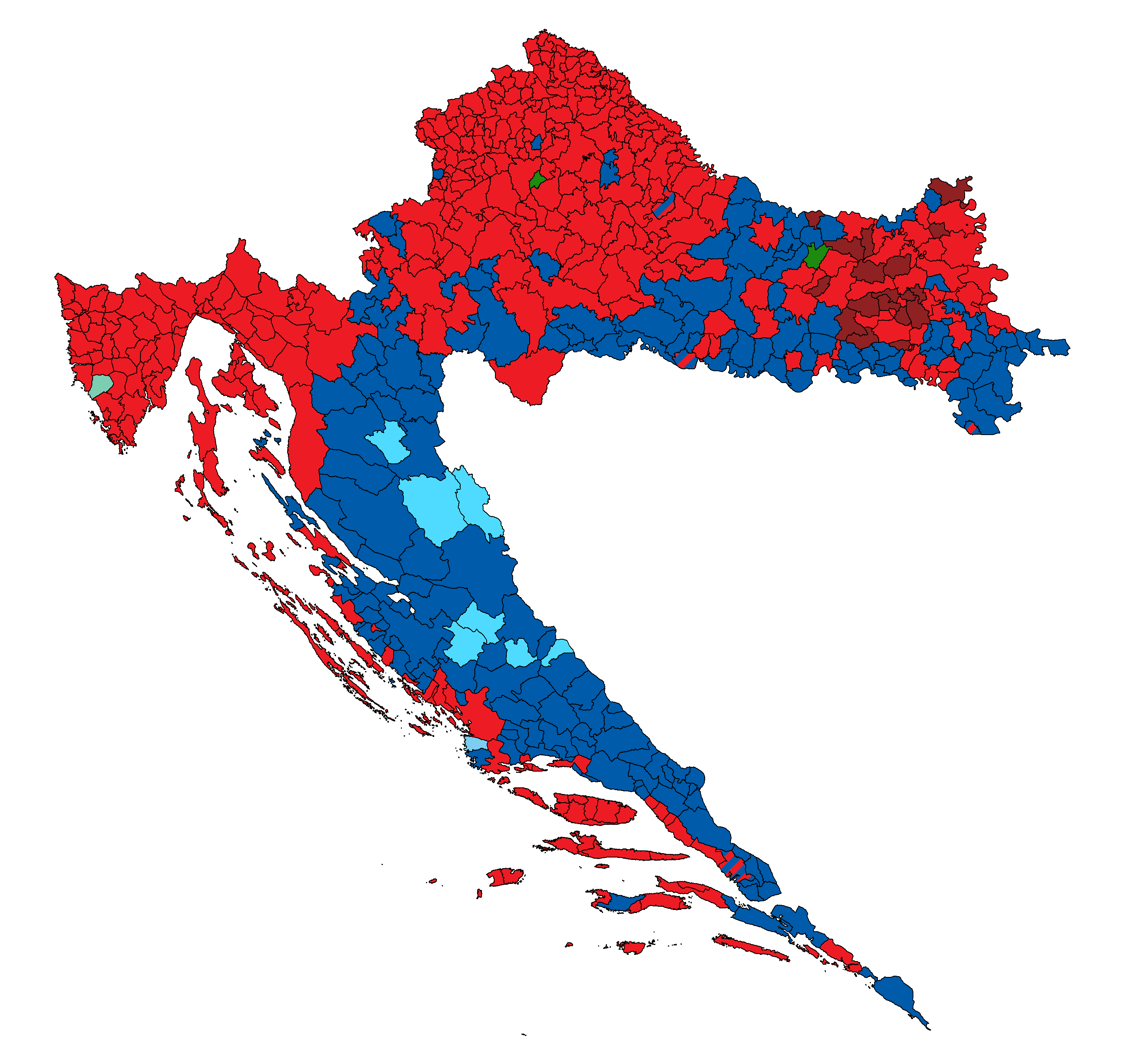 2011 election results for the Croatian Parliament, based on the majority of votes in each municipality of Croatia